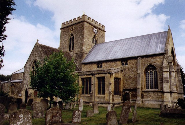 St Peter & St Paul, Wantage Grade 1 listed building erected in the 13th century.